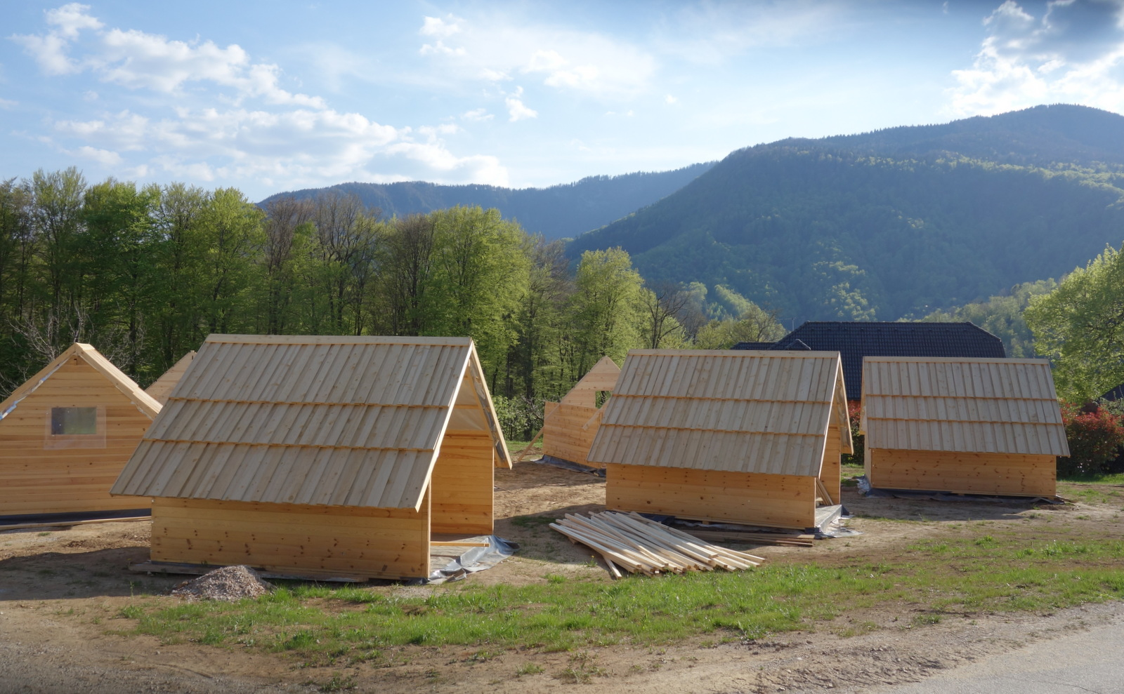 Glamping pri Mihovcu